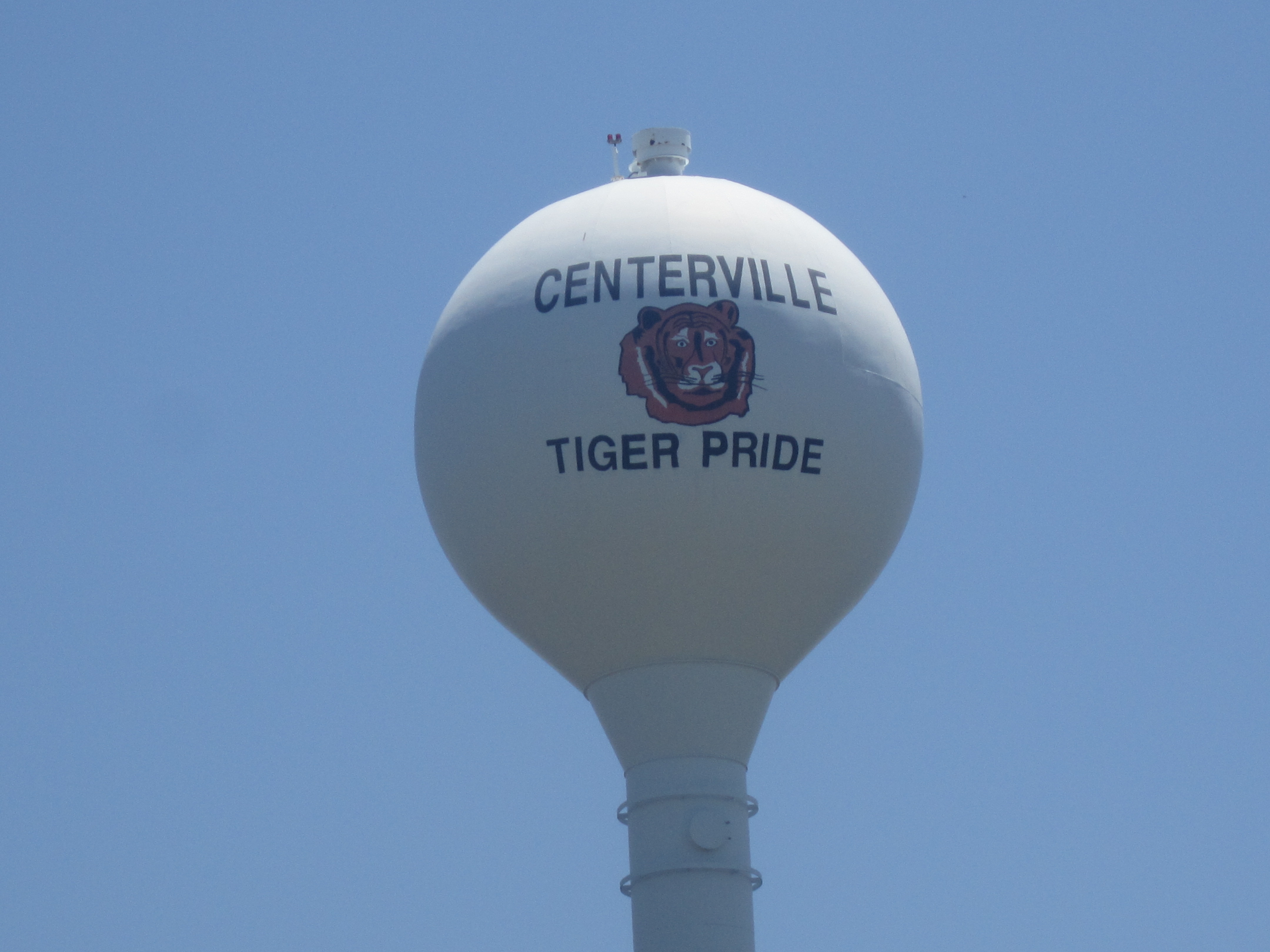 I took photo with Canon camera in Centerville, TX.